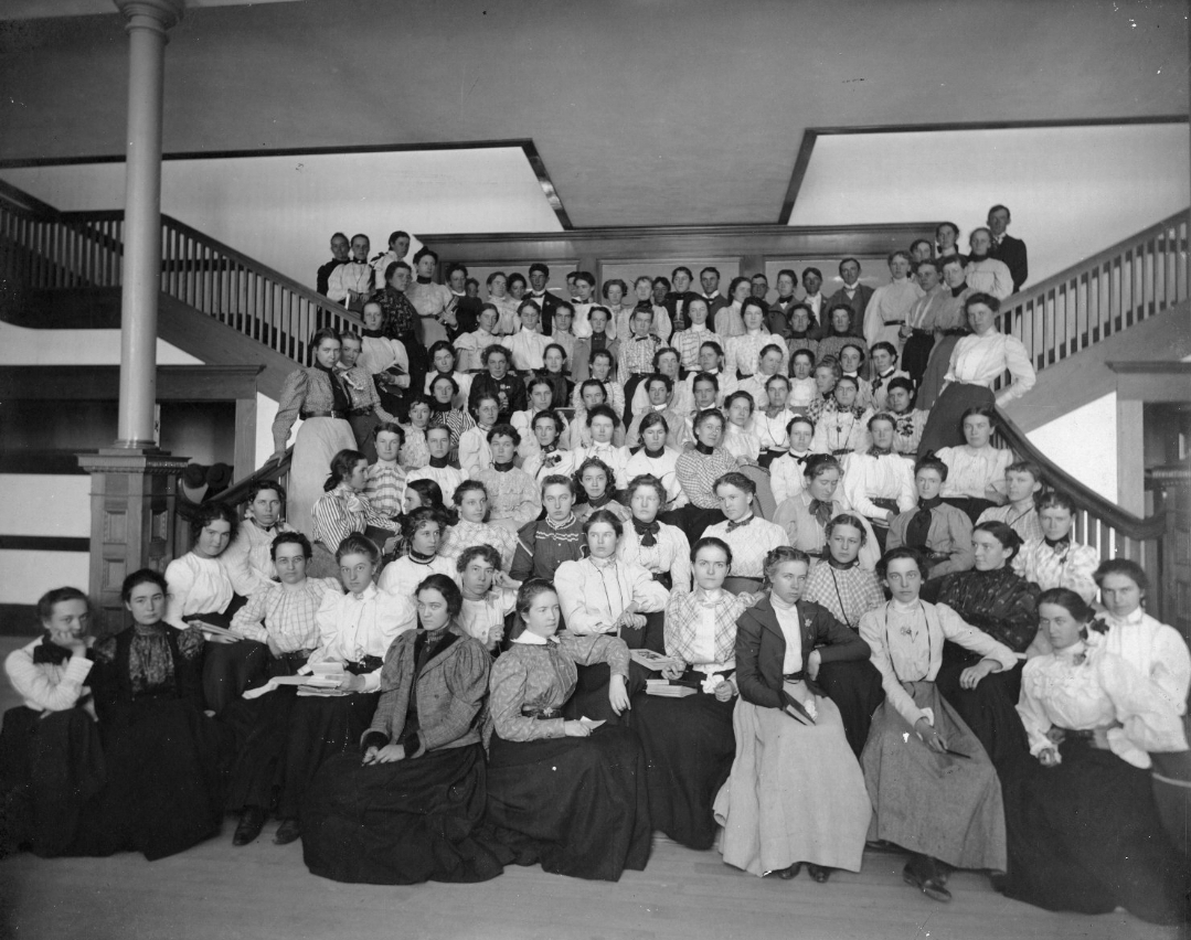 Students of the opening year of the newly constructed San Diego Normal School. The image was taken in the opening interior of the building The school would later expand and change names several times until deciding on the current name, San Diego State University.